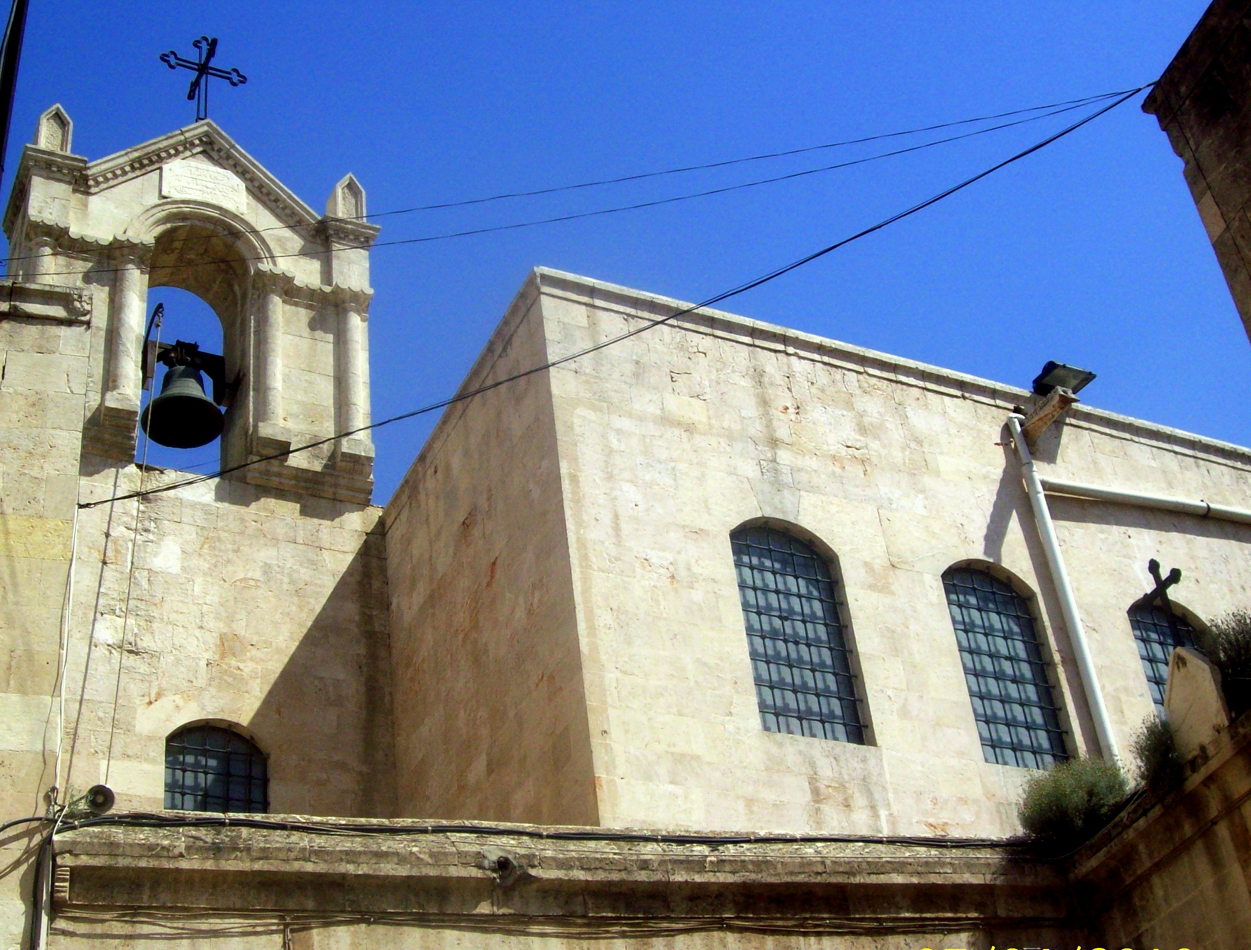 The belfry of the Greek Orthodox Church of the Dormition of Our Lady.